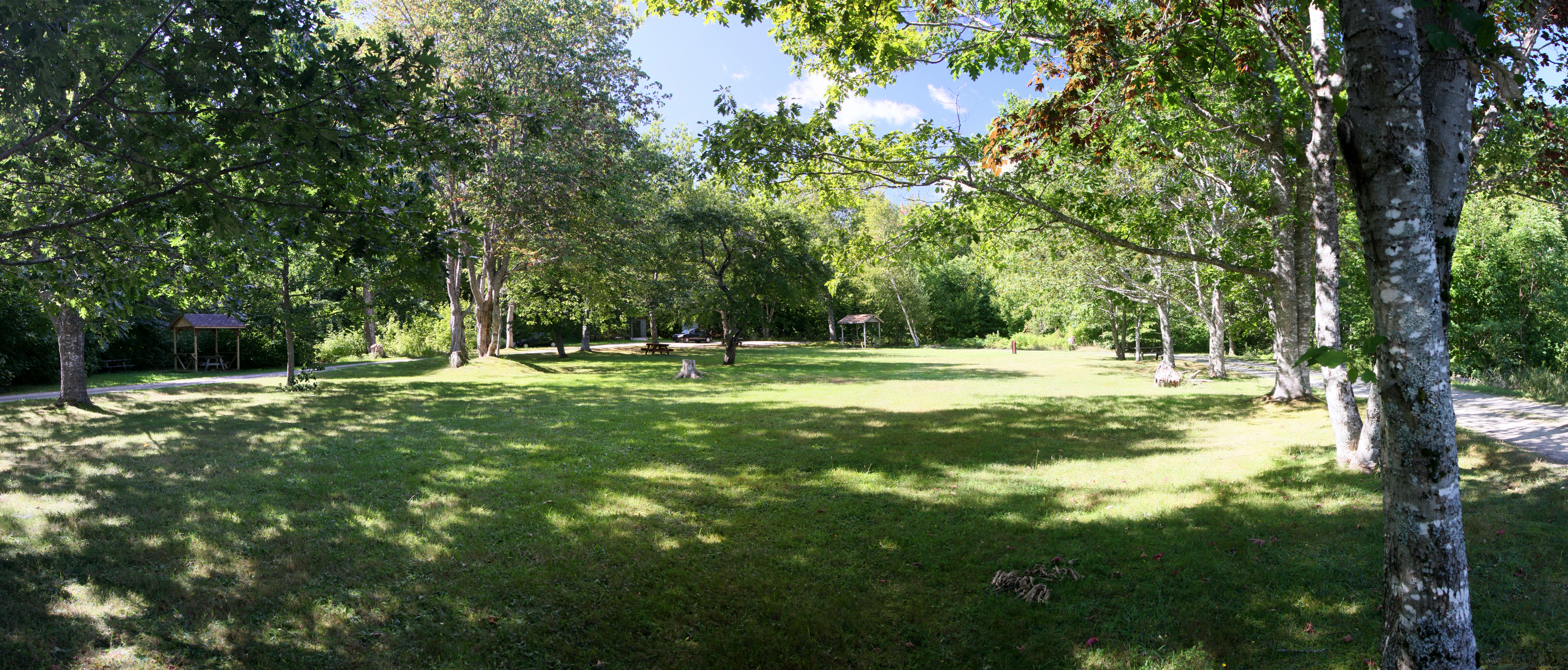 Ben Eoin Provincial Park is a small secluded park on an old farm against hardwood-covered hills in the community of Ben Eoin, Nova Scotia, on the south side of the East Bay of the Bras d'Or Lake, Cape Breton Island, Canada. This picnic and hiking park is managed by the provincial Department of Natural Resources and is situated on a heavily wooded 225 acres (91 ha) parcel of Crown land. A short distance into the park there are several large neatly mown clearings (former farm fields) with picnic tables under the trees at the edge of the small fields. Pit toilets and disposal areas for hot coals are available onsite.